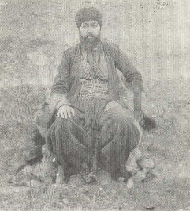 The Nestorian patriarch Shemon XVIII Rubil